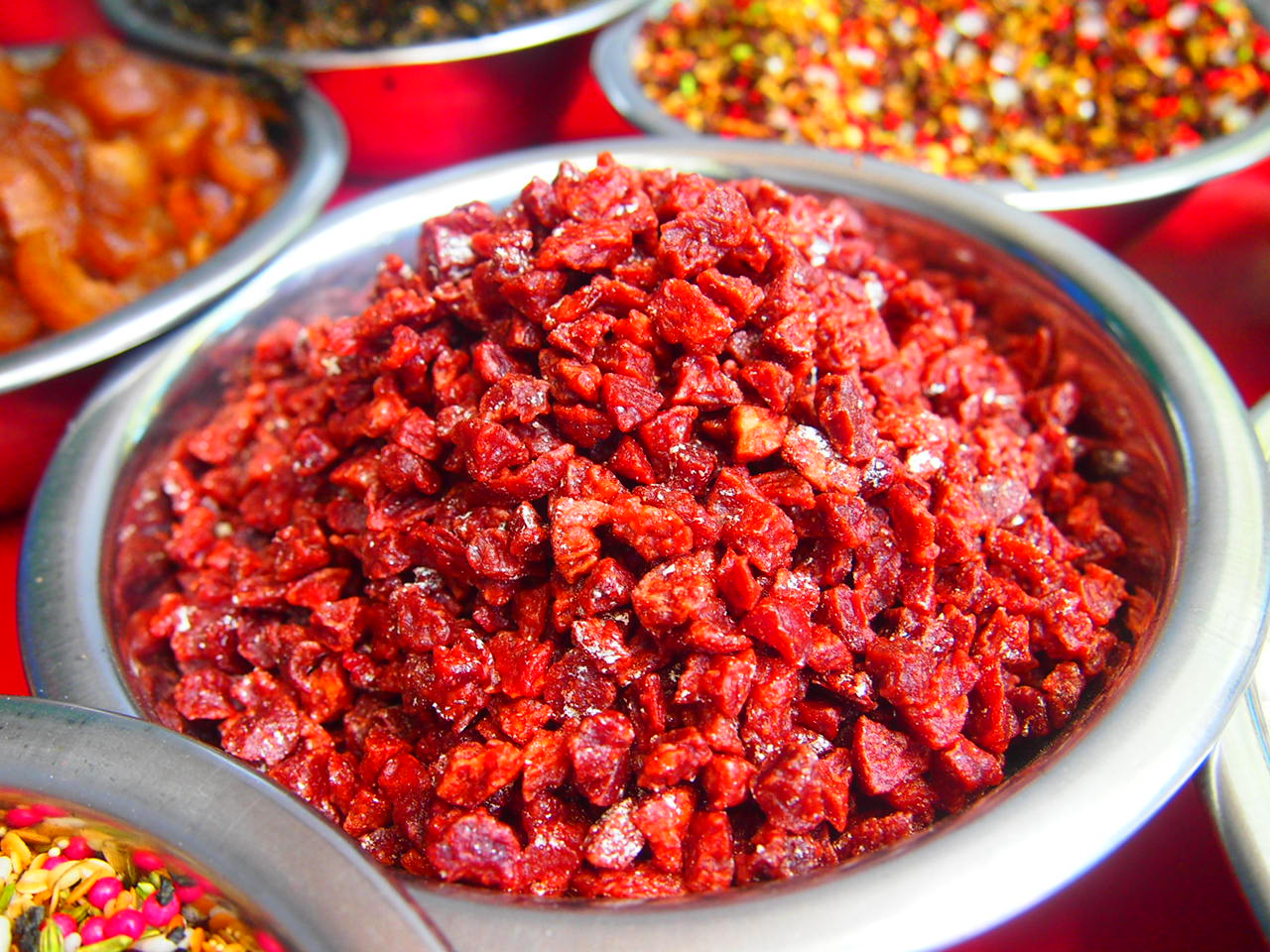 Another additive to Pan